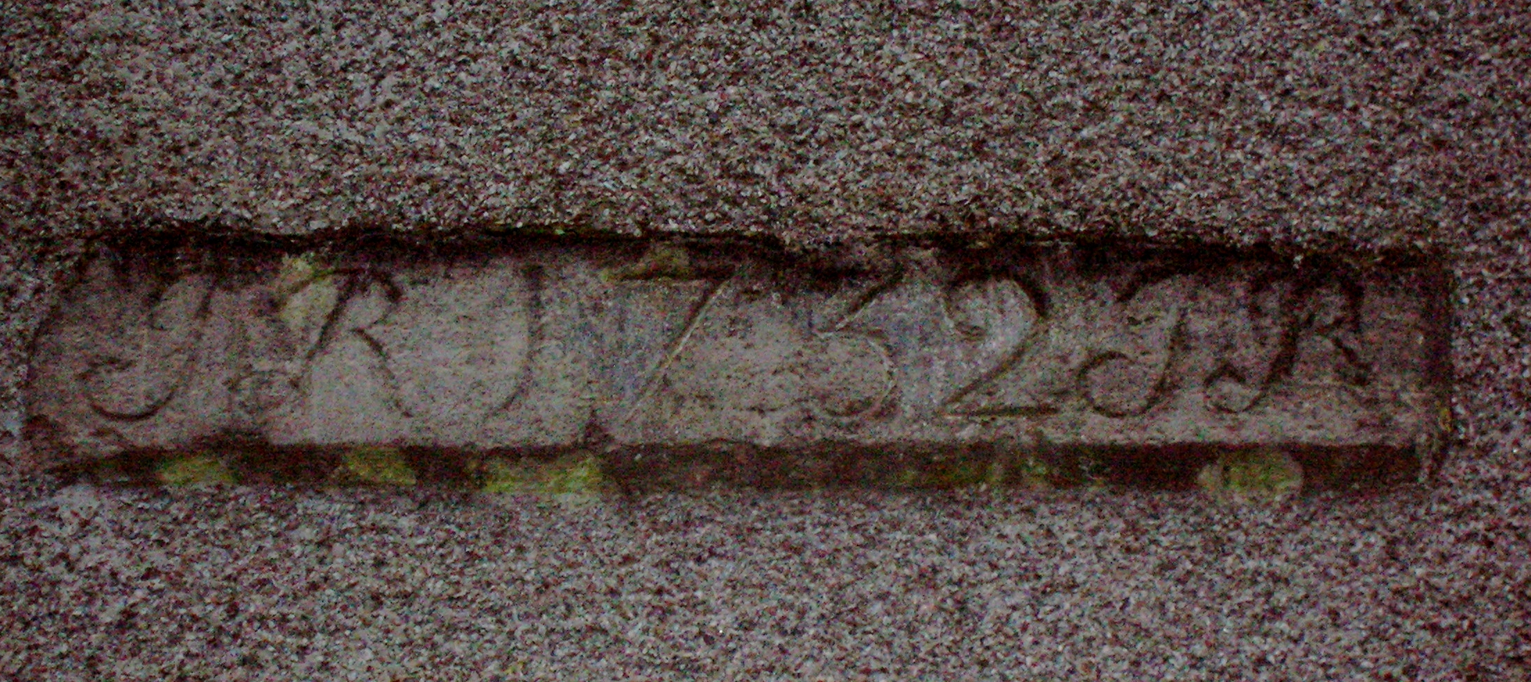 Datestone and possible Marriage stone from Parkhill House, Dalry, North Ayrshire, Scotland.